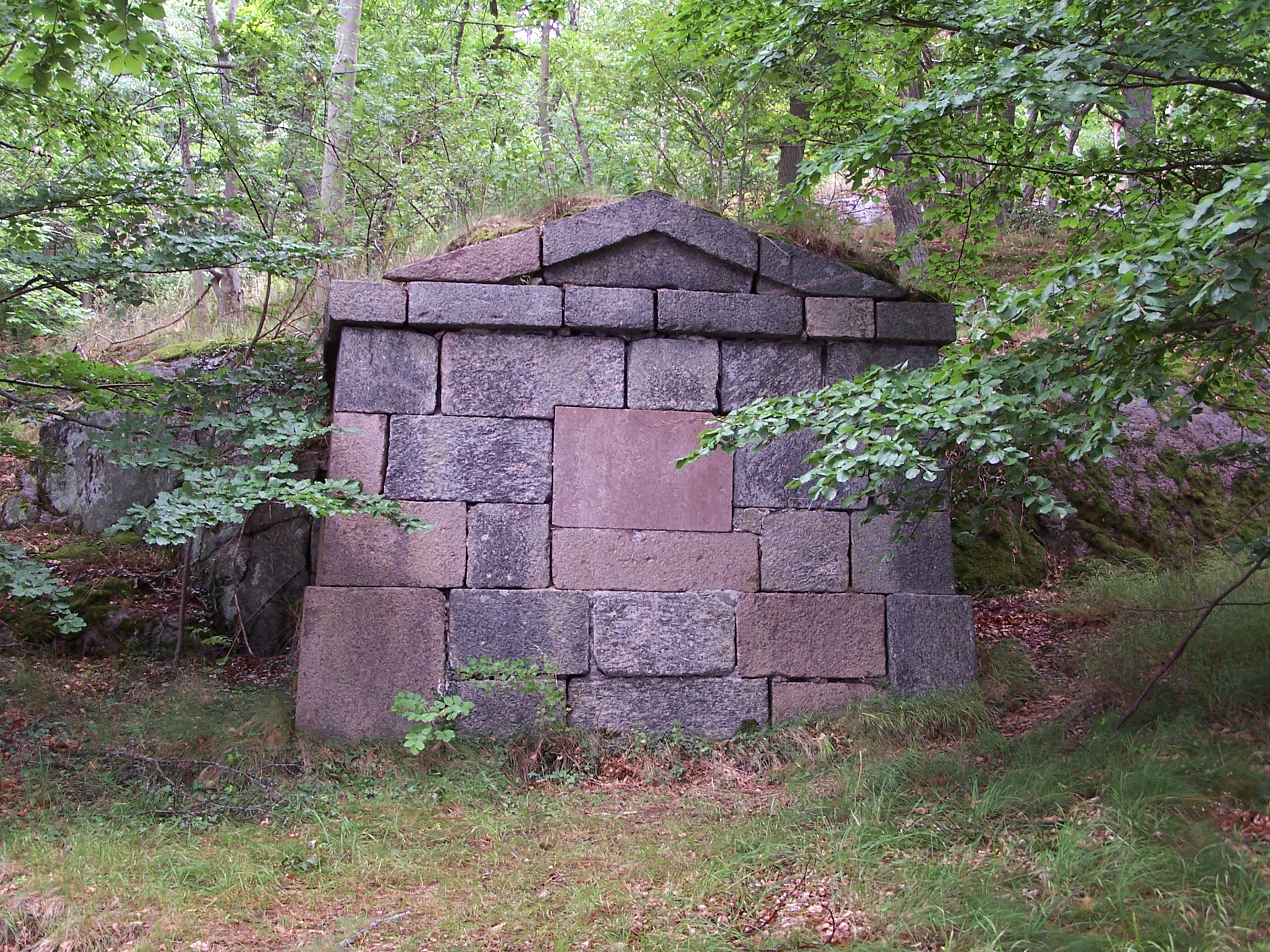 Skärva - Henric af Chapman's tomb